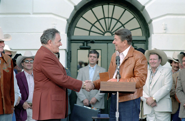 9/24/1983 President Reagan presenting Congressional Gold medal to Louis L'Amour at Barbecue for Professional Rodeo Cowboys Association on South Lawn